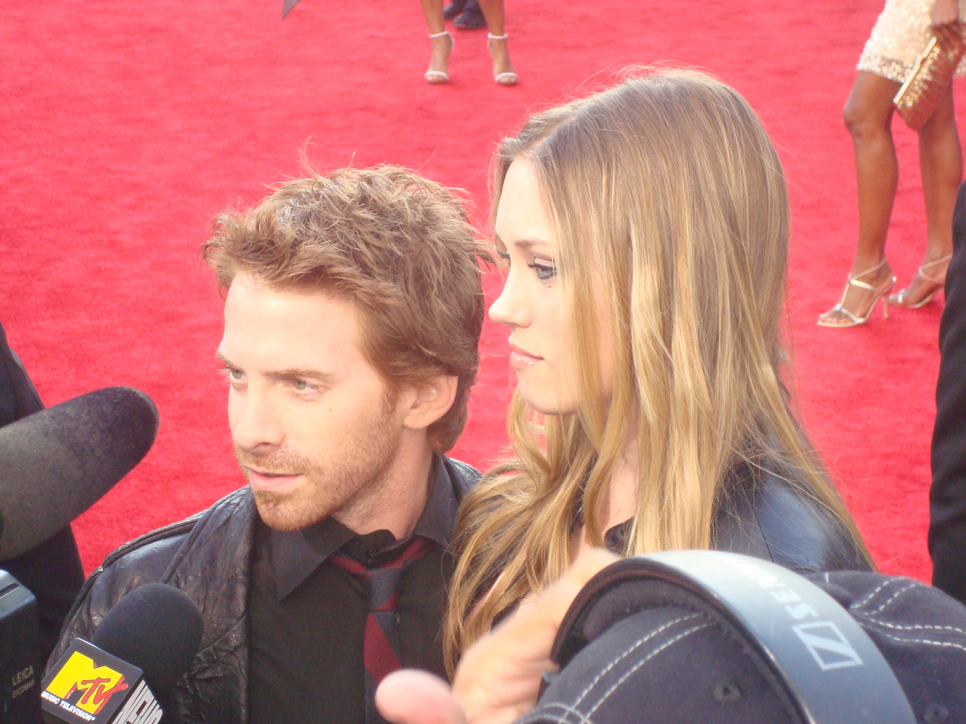 Seth Green and Claire Grant at the 2009 American Music Awards Red Carpet